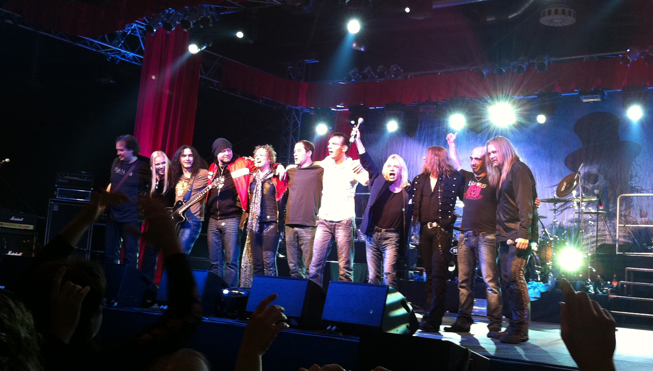 Avantasia in Kaufbeuren, Germany. Dec. 04 2010. ltr: Robert Hunecke-Rizzo, Amanda Somerville, Sascha Paeth, Michael Kiske, Tobias Sammet, Michael Rodenberg, Felix Bohnke, Bob Catley, Kai Hansen, Oliver Hartmann, Jorn Lande